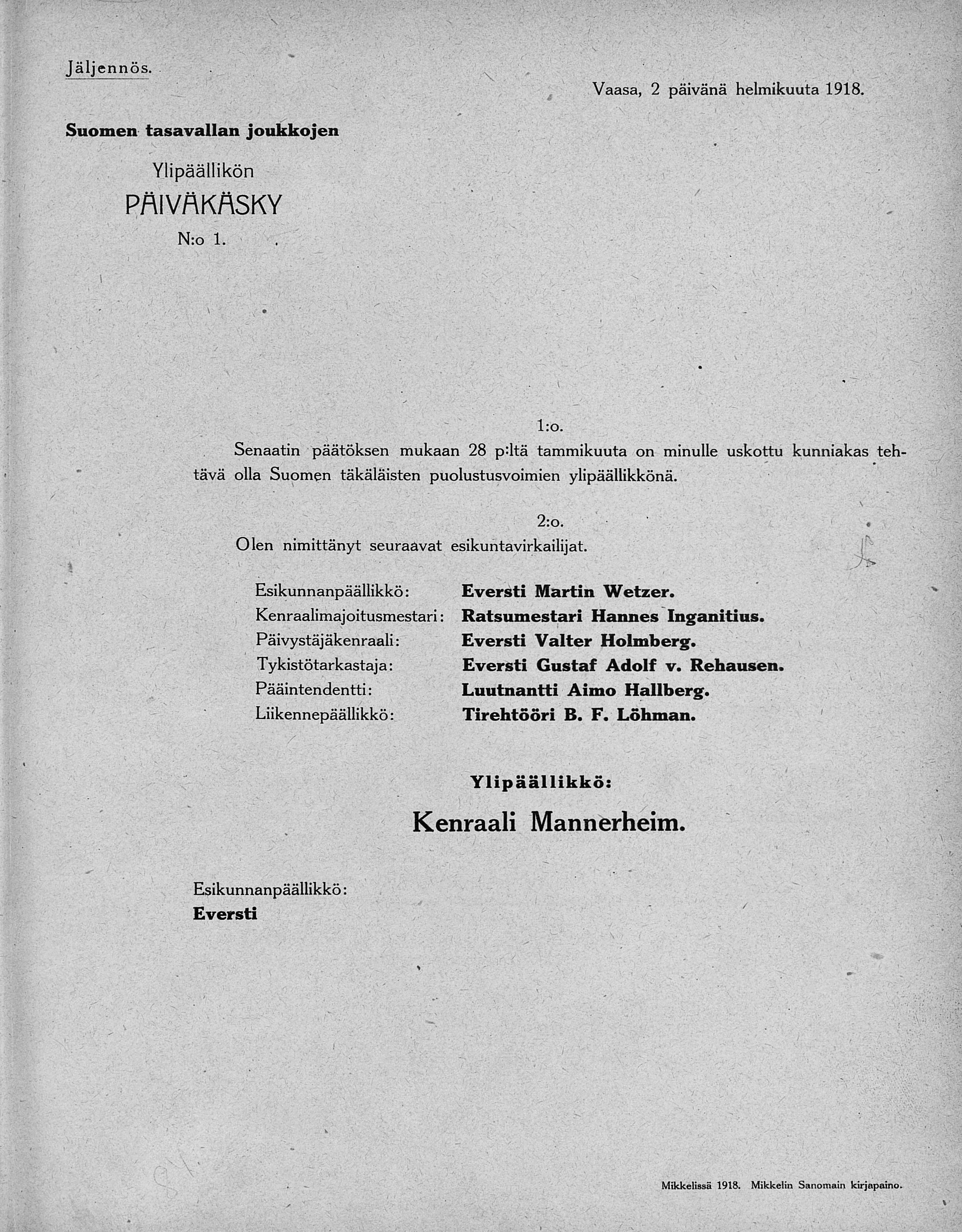 A copy of day order no 1 (päiväkäsky o 1) by General Carl Gustaf Emil Mannerheim that established the first headquarters of the Finnish Defence Forces and thus, the military of modern Finland. The document was issued on 2 February 1918 at Vaasa, Finland, a week after the Finnish Civil War began.